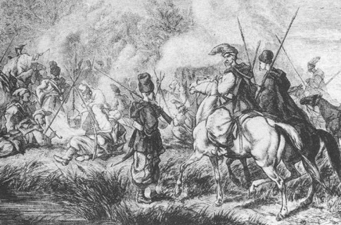 Camp of haidamakas